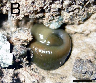 Orobdella masaakikuroiwai, live animal found curled up under a stone at the type locality: scale bar, 2 mm.